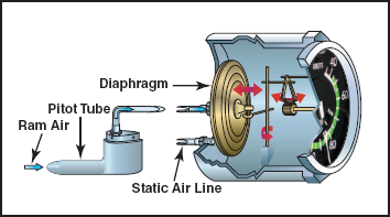 Extracted from the Pilot's Handbook of Aeronautical Knowledge, AC 61-23C, online at